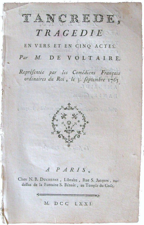 Voltaire Tancrède Paris Duchesne 1771